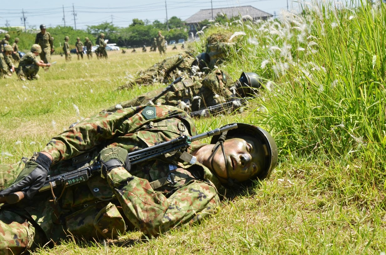 Title １番到着.JPG Album 教育訓練等 自衛官候補生・戦闘訓練（第３３普通科連隊・久居）